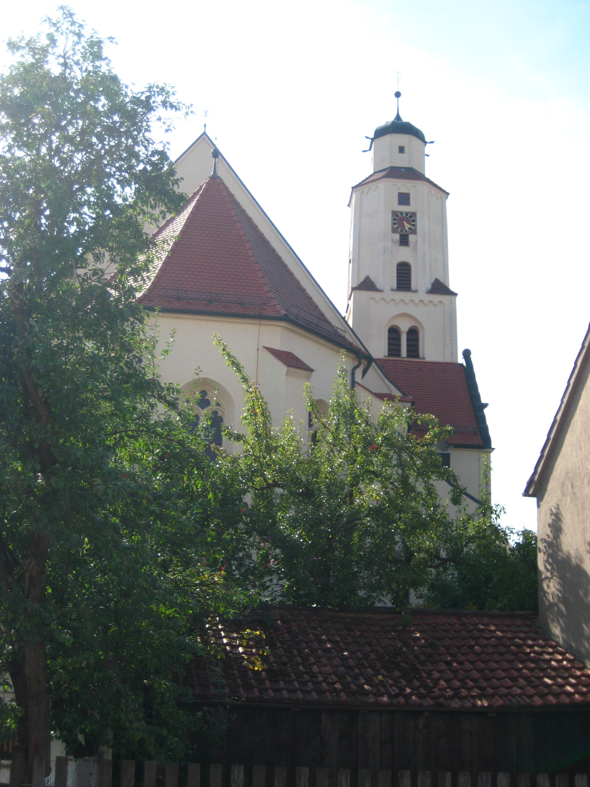 Pfarrkirche St. Walburga, Monheim, Bavaria